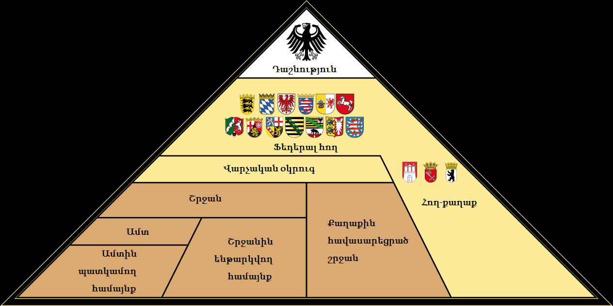 Administrative system of Germany